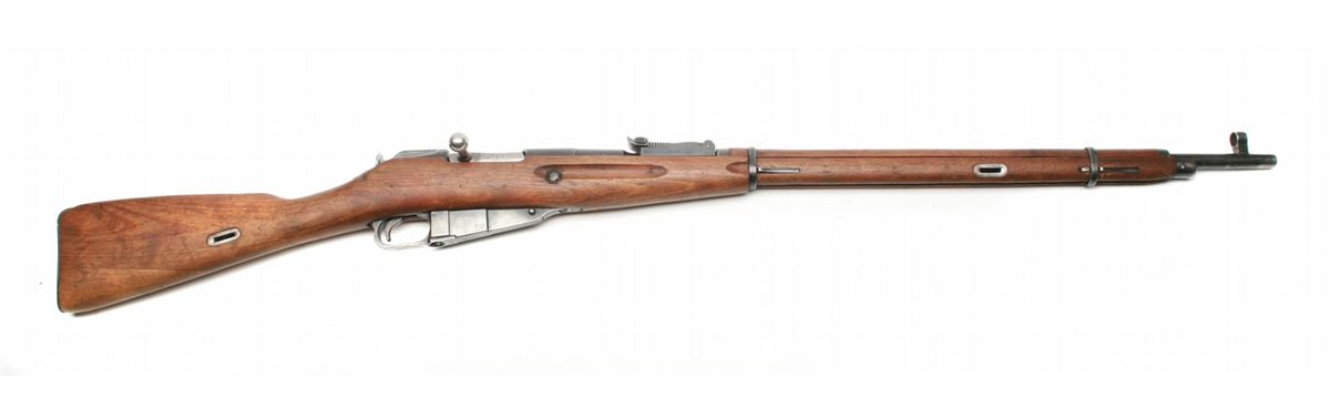 Cia captured mosin nagant